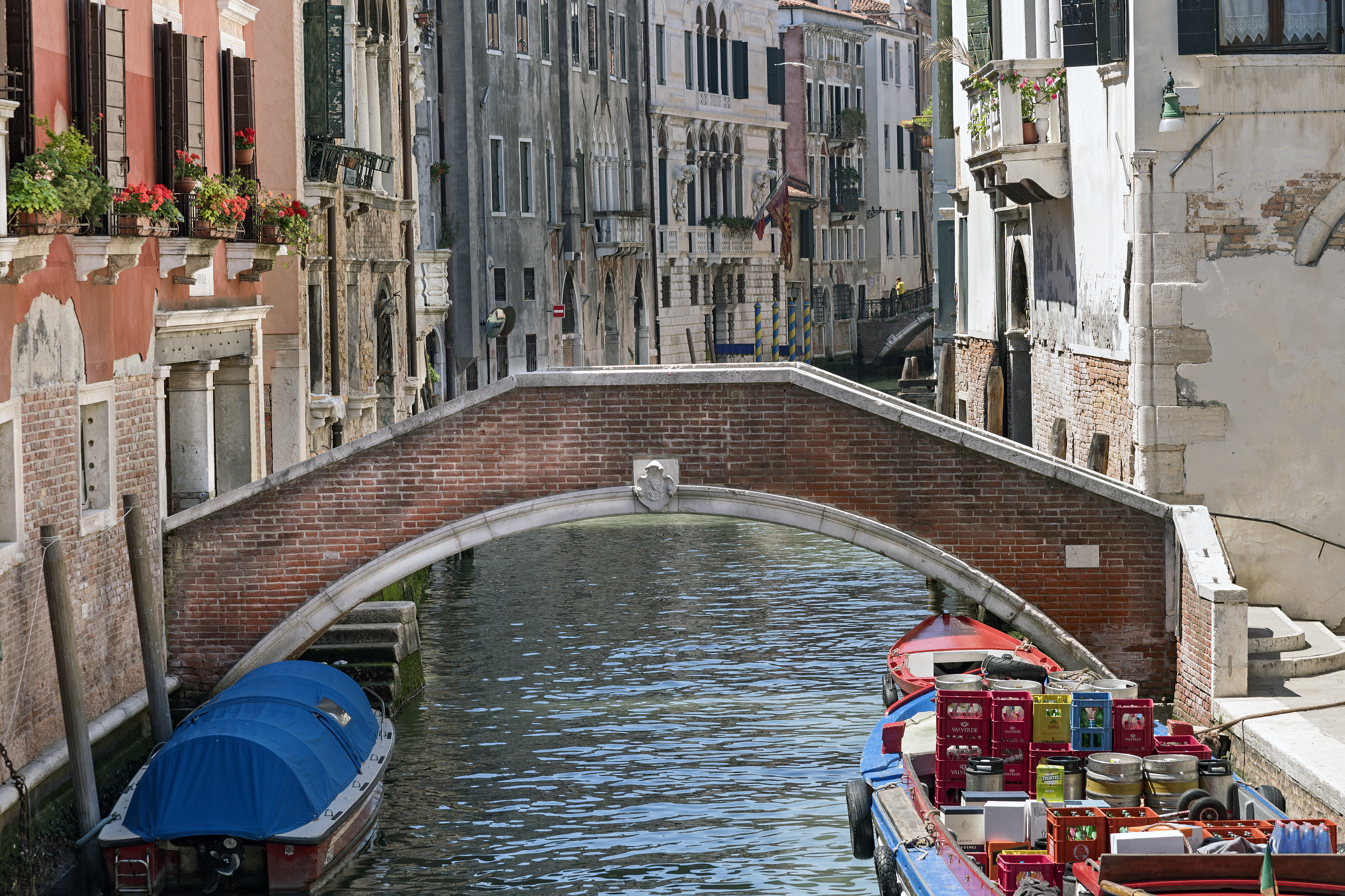 Ponte Minich on Rio del Paradiso or (rio del Pestrin) in Venice.